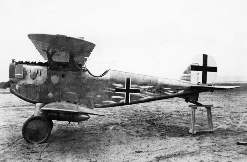 Zeppelin-Lindau (Dornier) D.I side